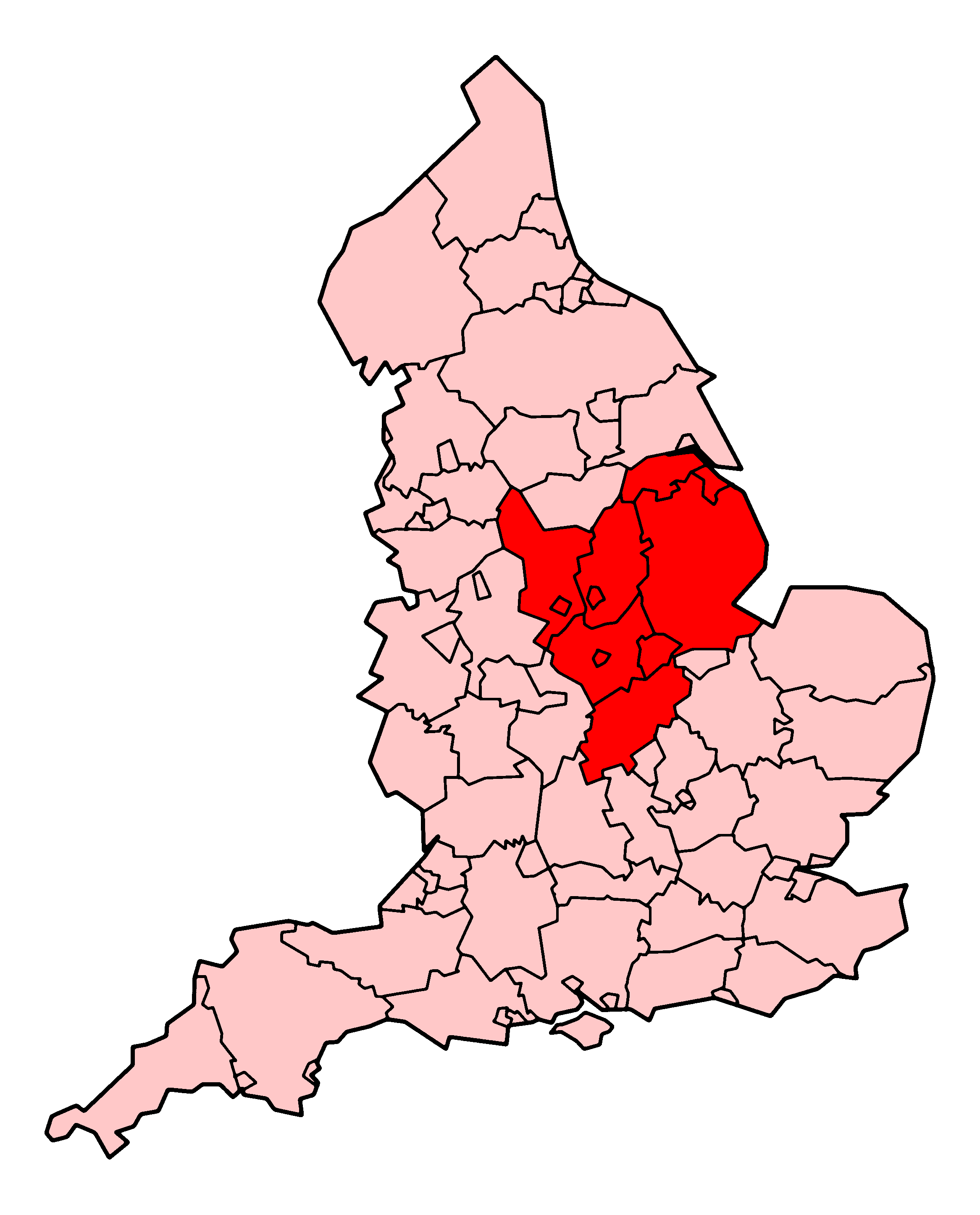 Map of the East Midlands Ambulance Service's coverage area